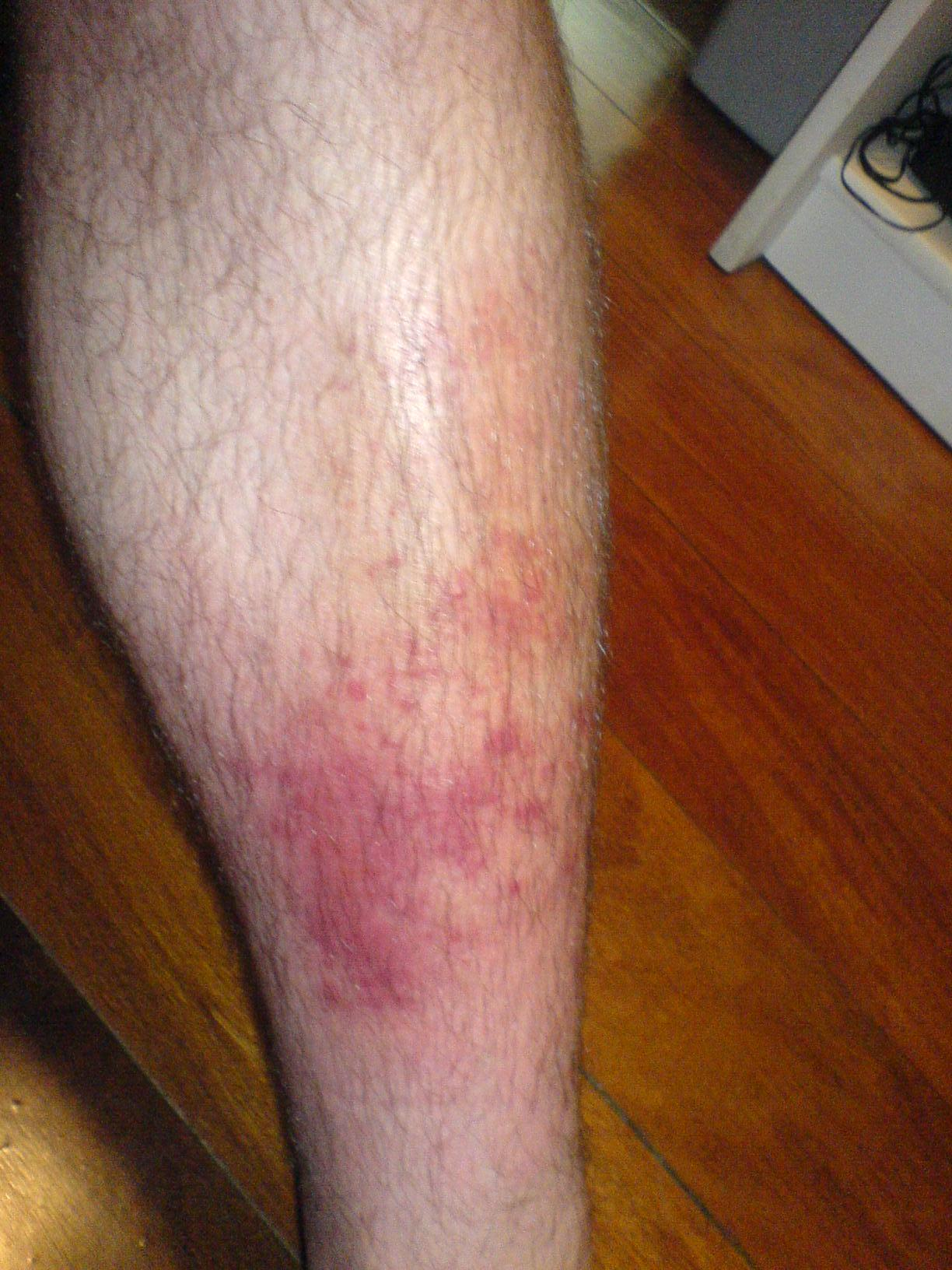 Cellulitis case, my left knee infected